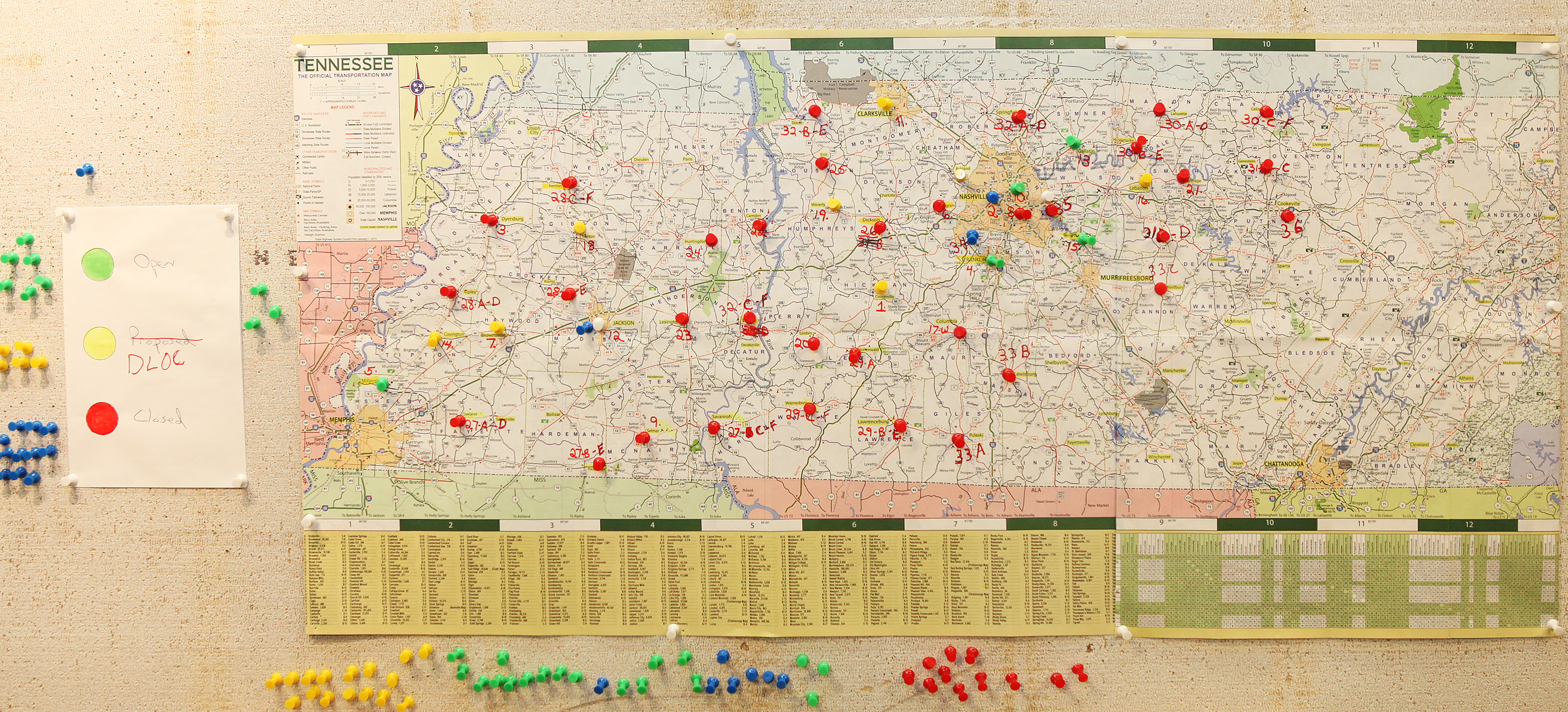 Nashville, TN, June 23, 2010 -- FEMA Logistics specialists use a Tennessee map and pushpins to create a visual reference of the location of Disaster Recovery Centers as well as the open-closed status of each center. FEMA is responding to severe storms and flooding that damaged or destroyed thousands of homes across Tennessee in May 2010. David Fine/FEMA